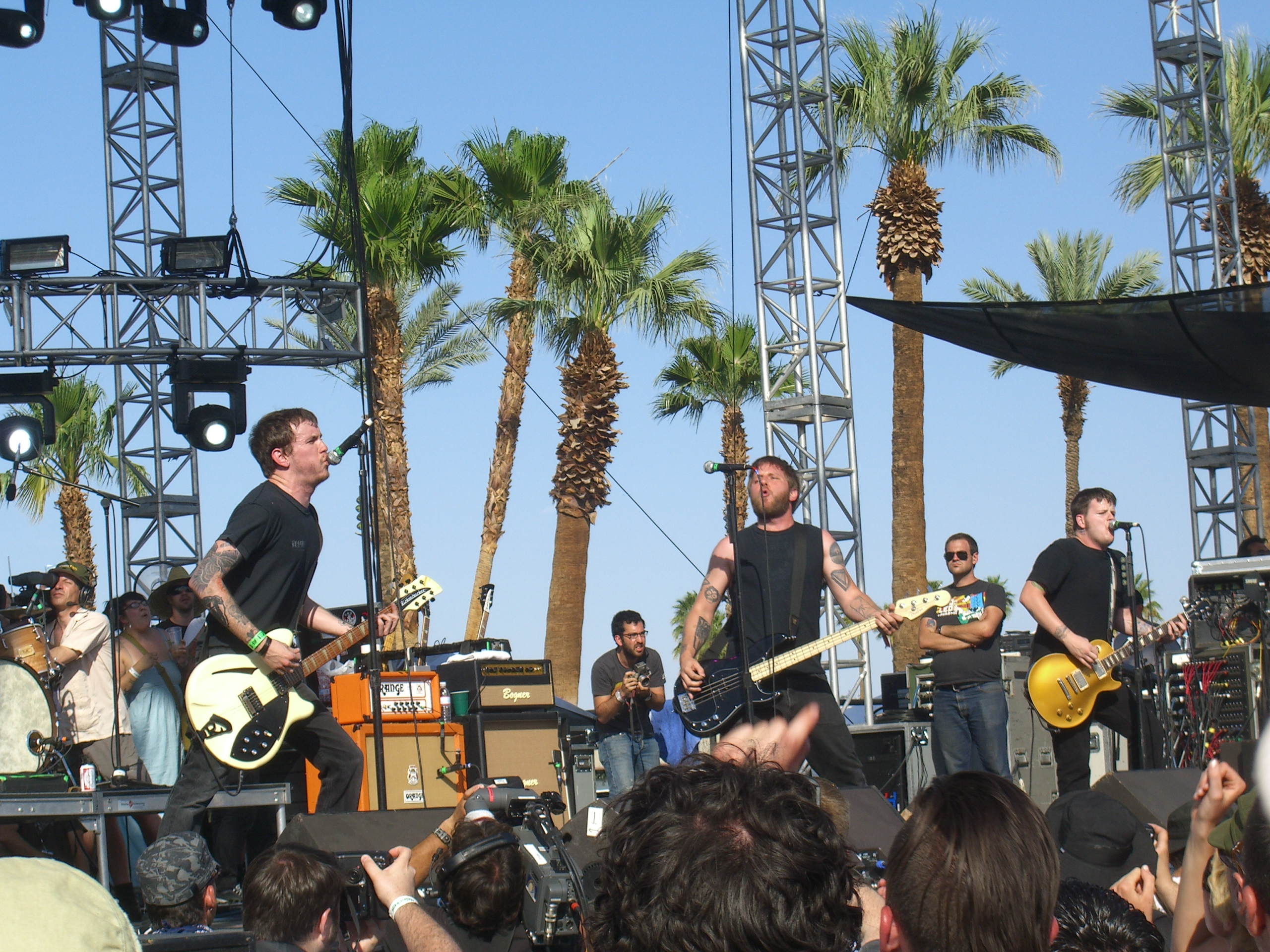 Against Me! playing at the 2007 Coachella Valley Music and Arts Festival in Indio, California.